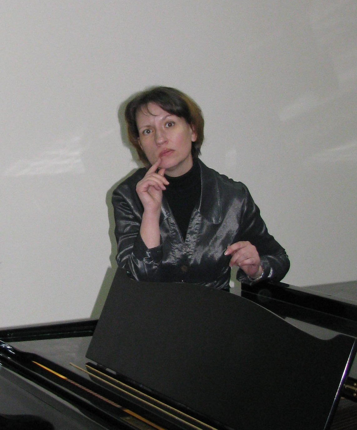 Ludmila Dubcovetcaia